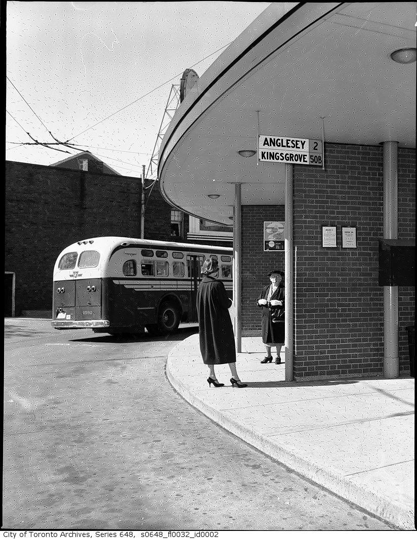 A bus leaving the TTC's Jane loop. This image is available from the City of Toronto Archives, listed under the archival citation Series 648, s0648 fl0032 id0002. This tag does not indicate the copyright status of the attached work. A normal copyright tag is still required. See Commons:Licensing for more information.